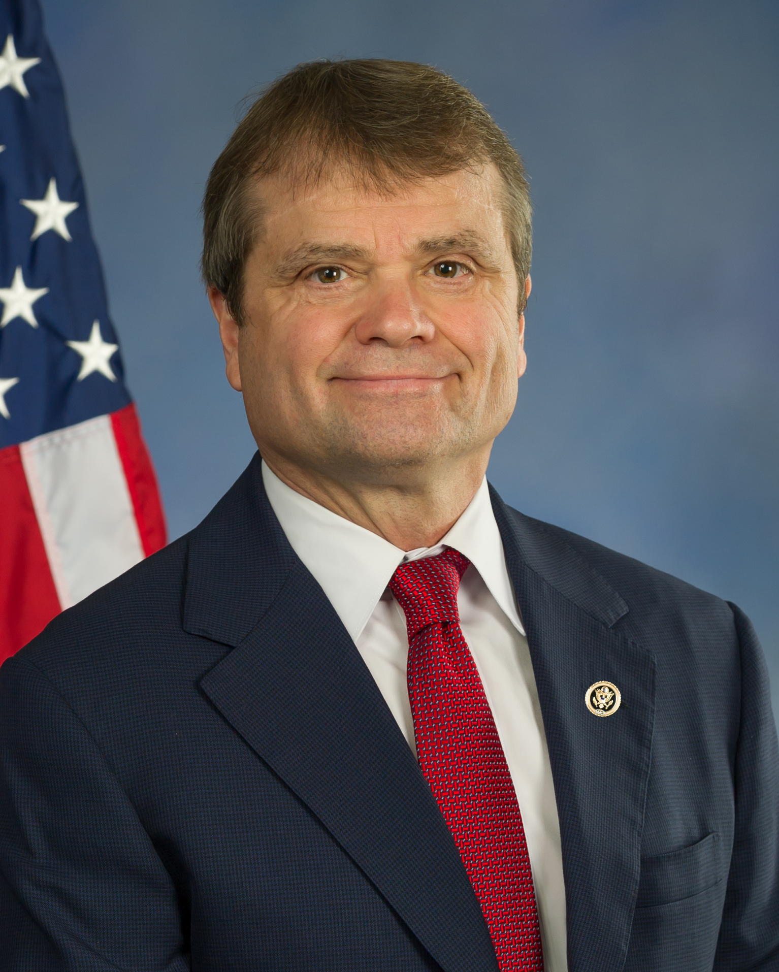 Mike Quigley official photo